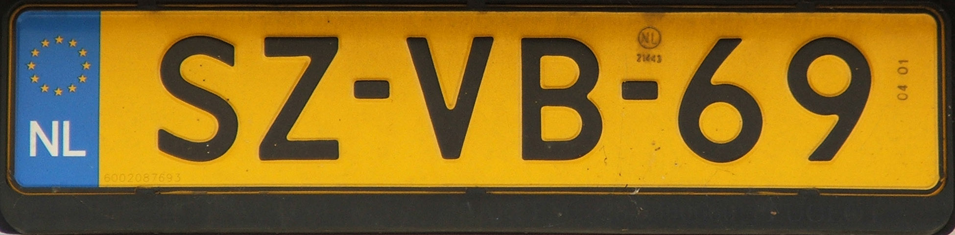 Vehicle licence plate from the Netherlands.